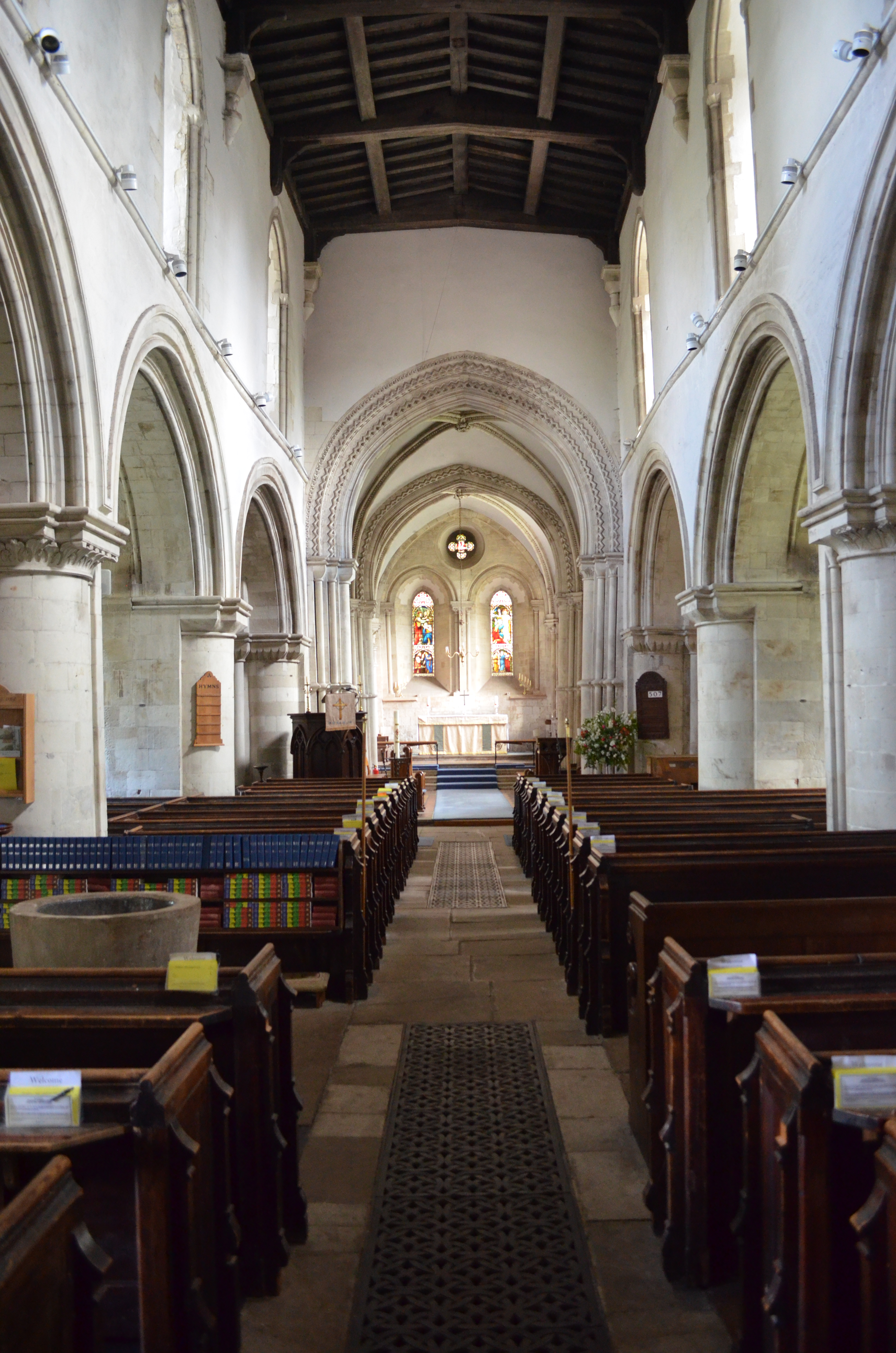 All Saints, Crondall, nave